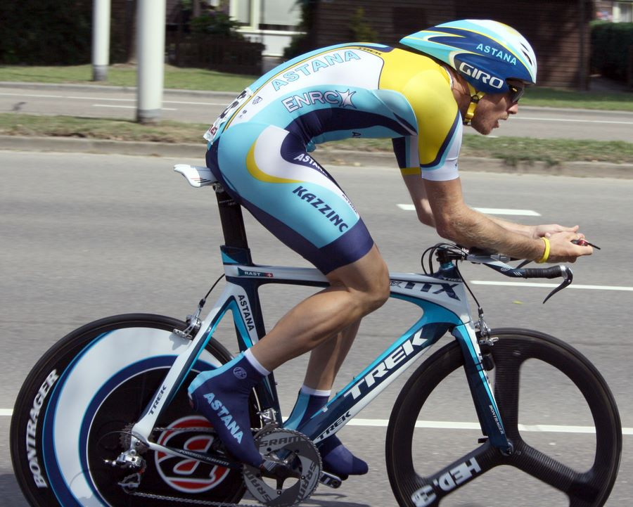 Grégory Rast at the 2009 Eneco Tour prologue